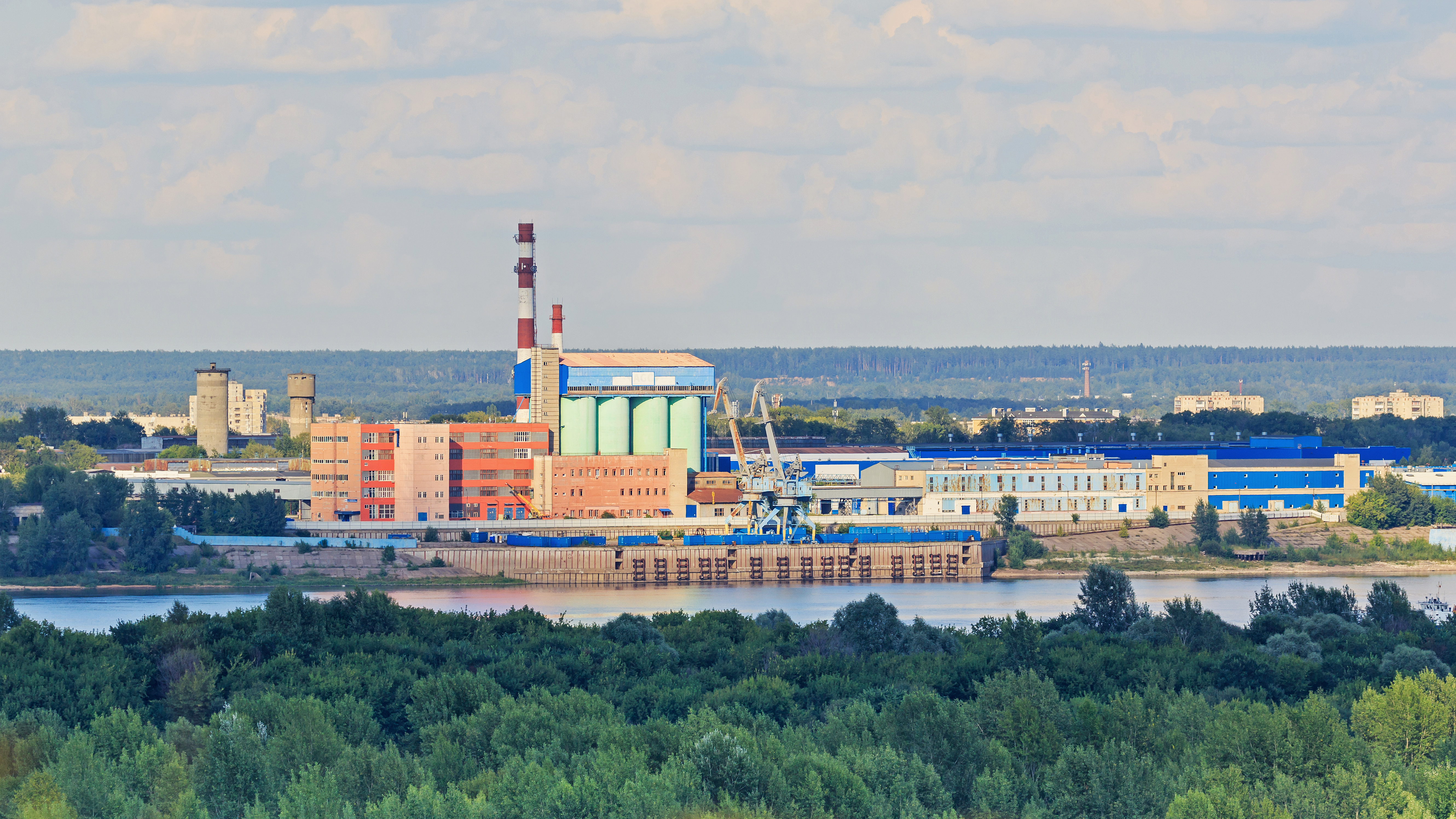 Remote view of Bor from Nizhny Novgorod, Russia.